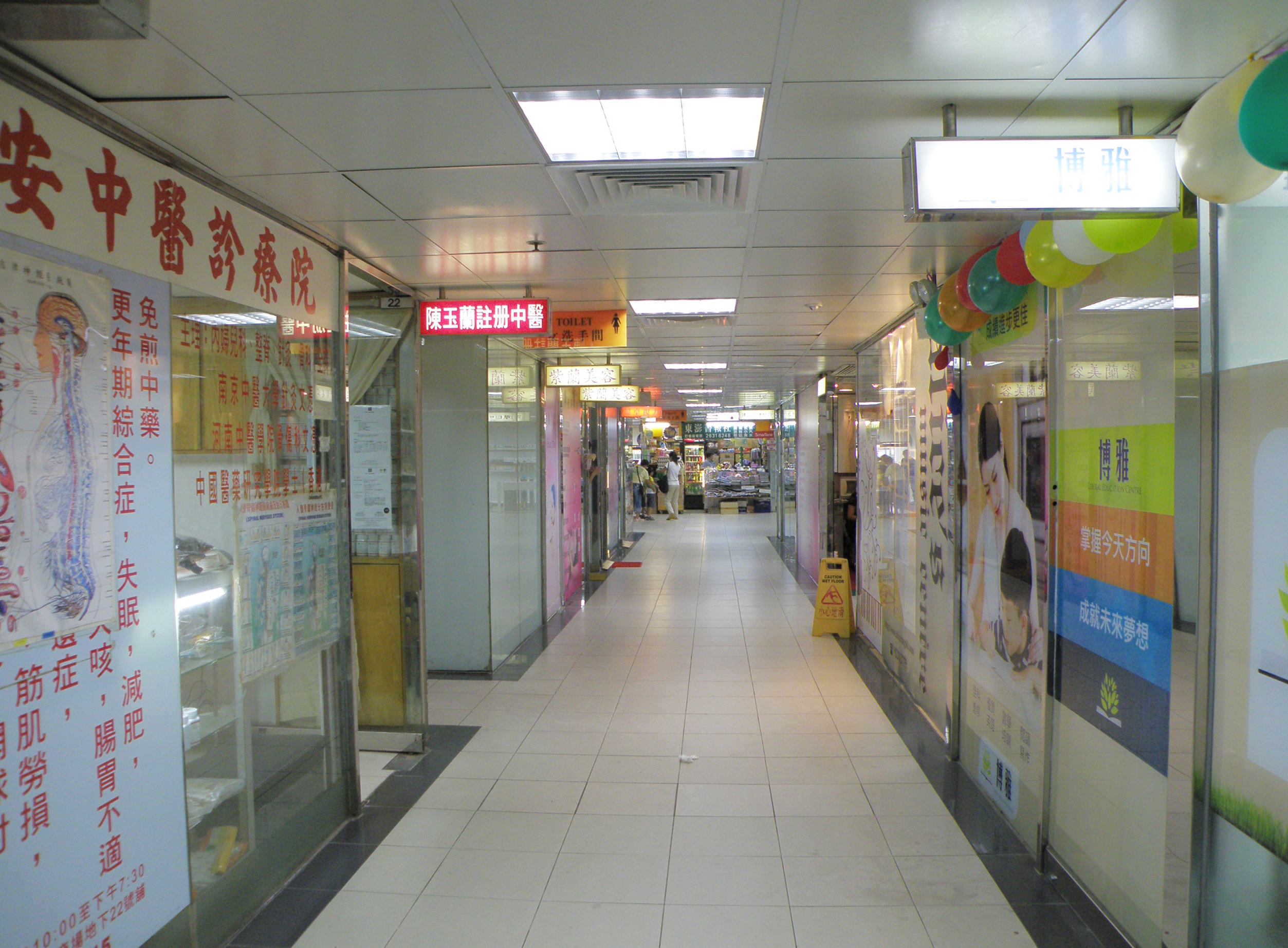 Fok On Shopping Arcade in Ma On Shan, Hong Kong.